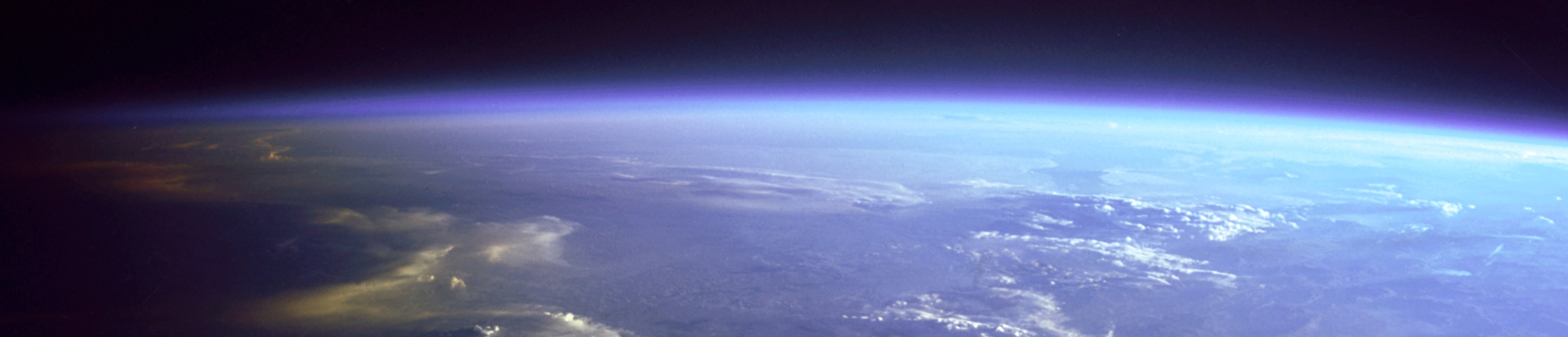 Waves of clouds along the east flanks of the Andes Mountains cast off an orange glow by the low angle of the sun in the West. The dark area to the left is the Earth's terminator. This view was photographed by astronaut Frank Borman and James A. Lovell during the Gemini 7 mission, looking South from Northern Bolivia across the Andes. The Intermontane Salt Basins are visible in the background.